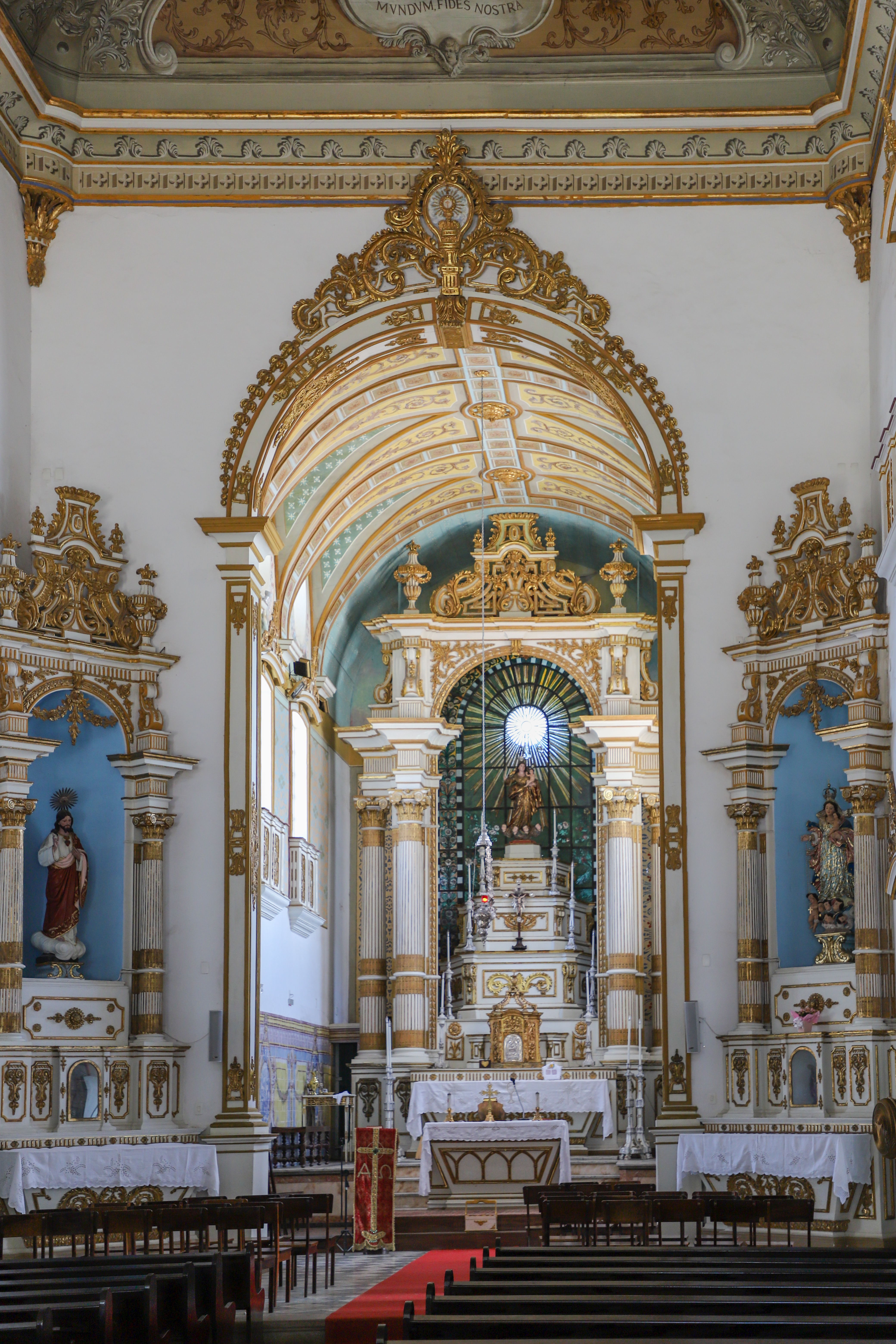 View of altar and chancel from right, Igreja de Nossa Senhora da Vitória, Salvador, Brazil.